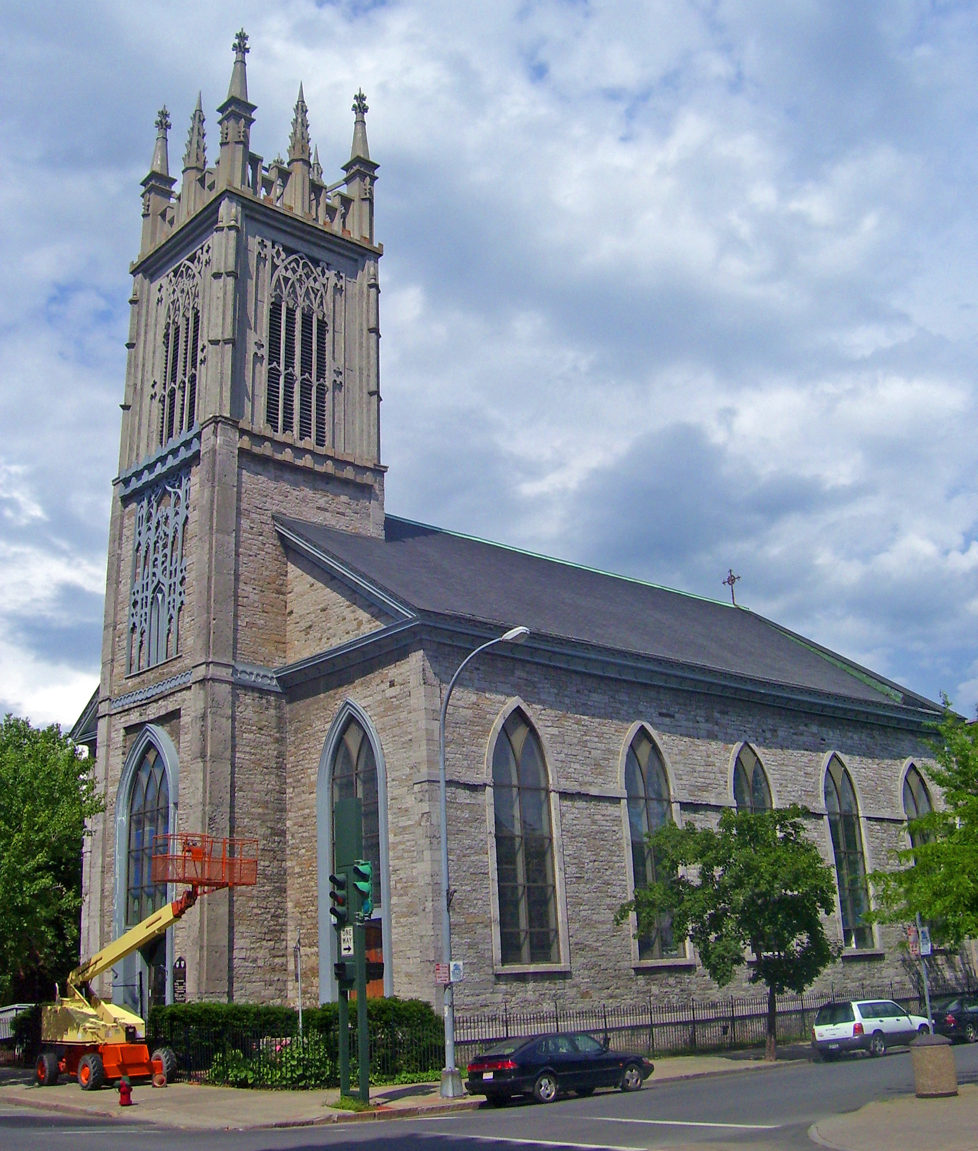 St. Paul's Episcopal Church, Troy, NY, USA